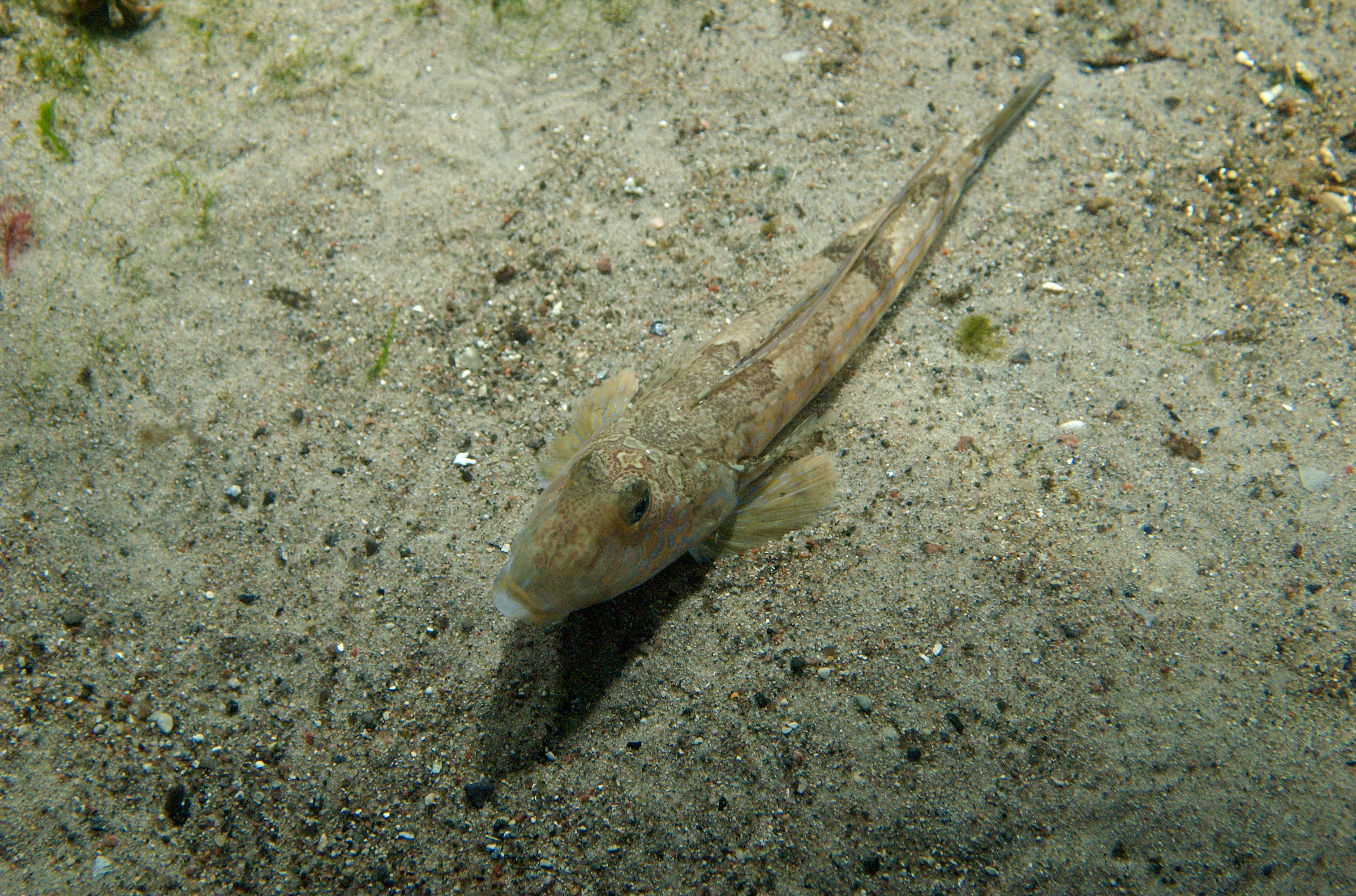 Callionymus lyra, Ozeaneum Stralsund